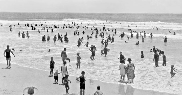 Surfing at Southport. (The original photograph caption makes reference to S C [South Coast] Line, Q.)